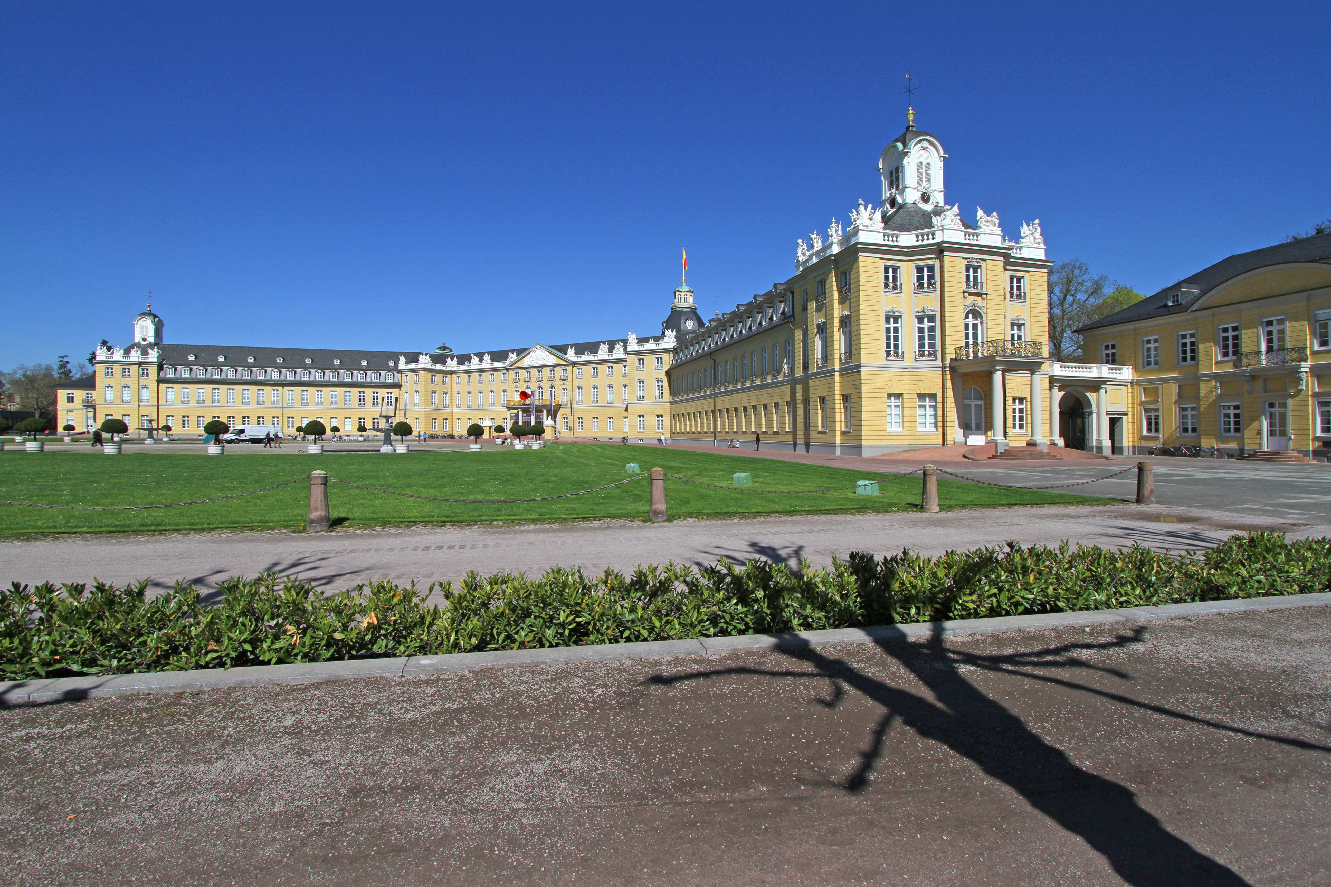 Karlsruhe Palace